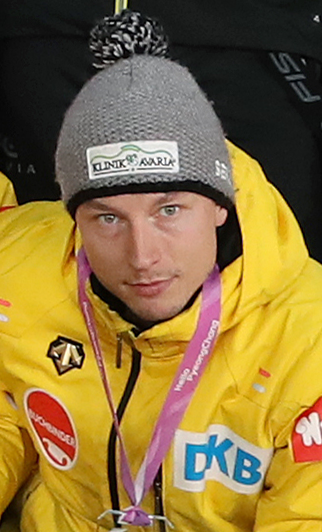 Eric Franke in Pyeongchang, IBSF World Cup 2016/17 finale